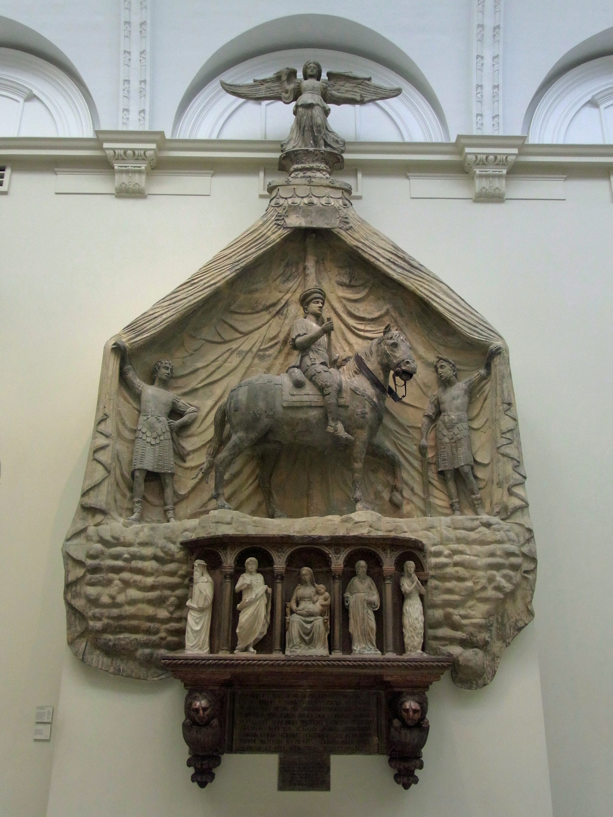 Monument to Marchese Spinetta Malaspina; Stucco, marble, Istrian stone; made in Verona, Italy; attributed to Antonio da Firenze, figures by Pietro di Niccolo Lamberti and Giovanni di Martino da Fiesole; Museum no. 191-1887 description ofthe monument